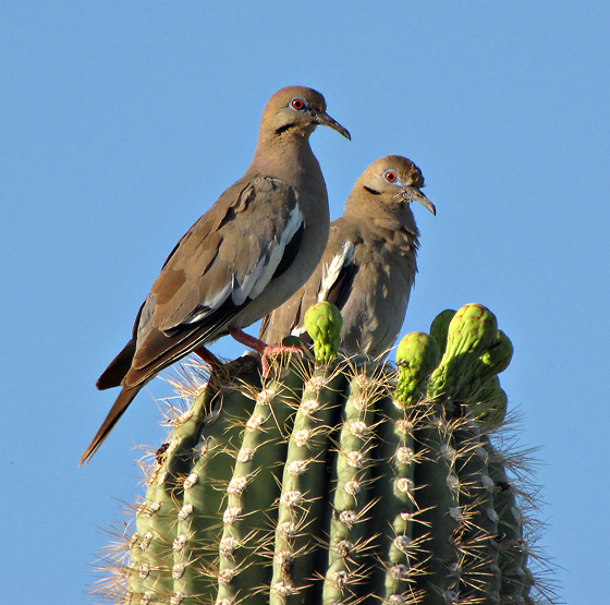 Two White-winged Doves perching on a cactus in Tucson, Arizona, USA.